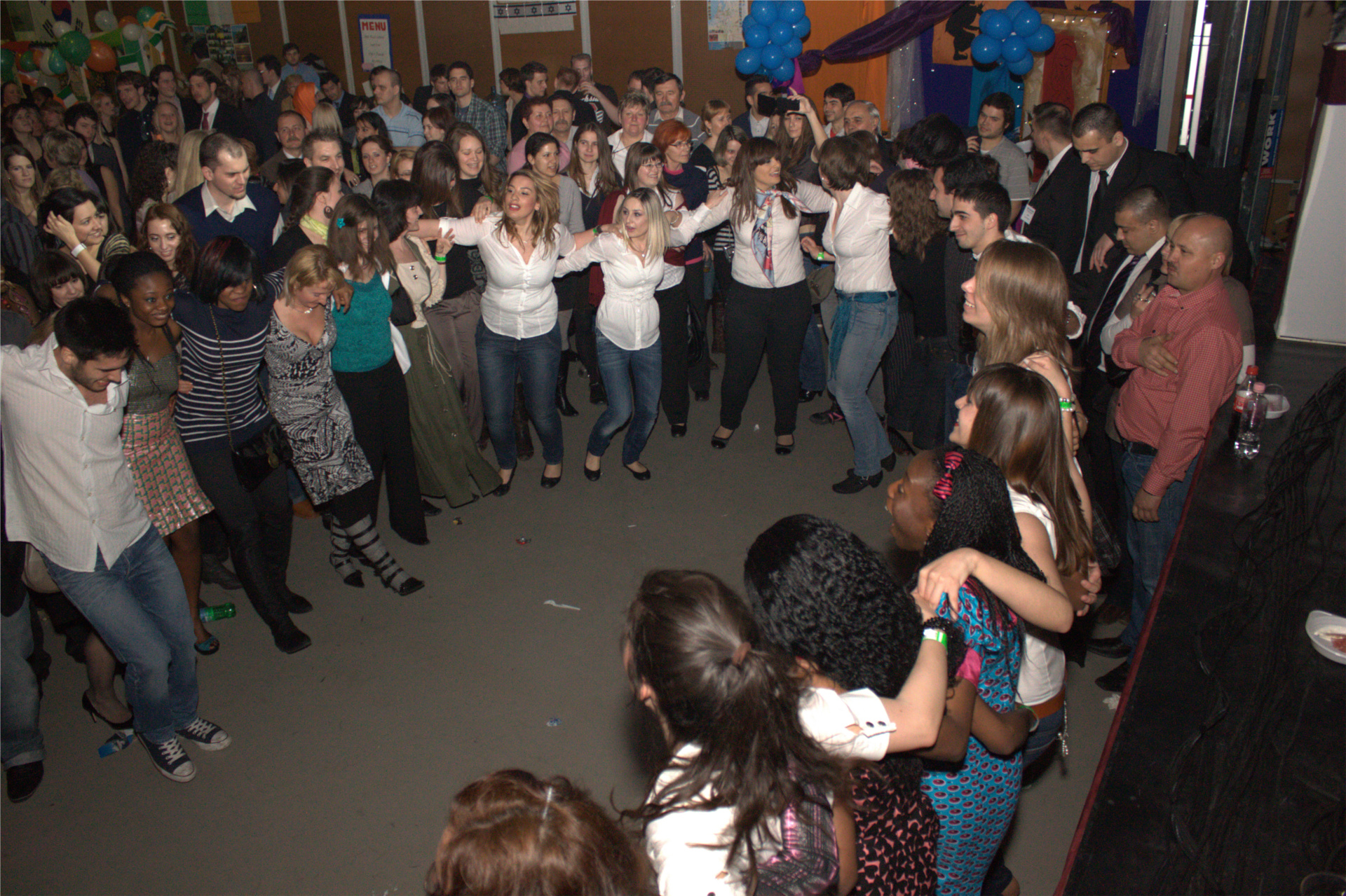 Photograph from the 2011 International Evening at the University of Pécs